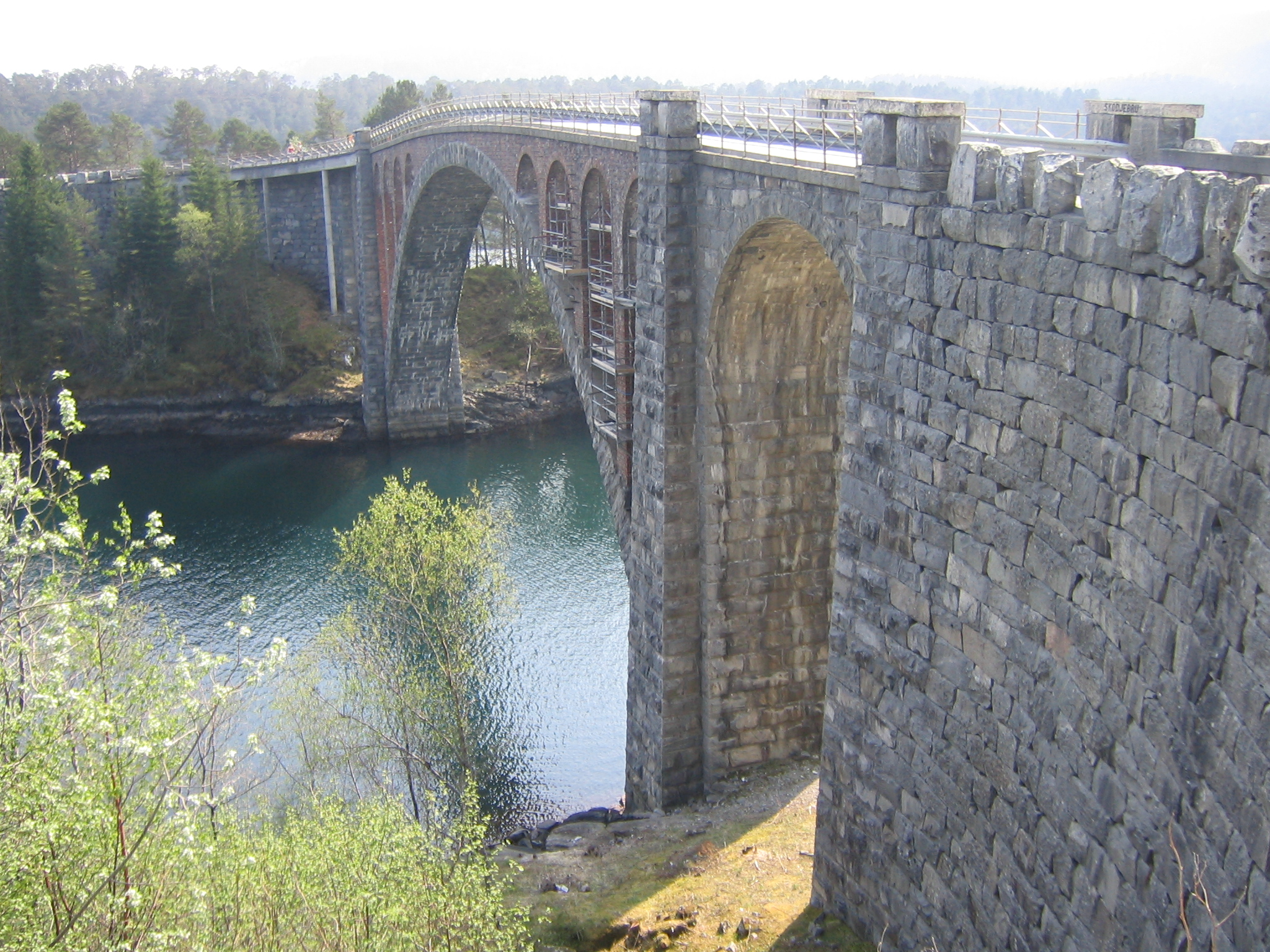 Picture taken by me in Skodje outside of Ålesund, Norway of the Skodje bridges.